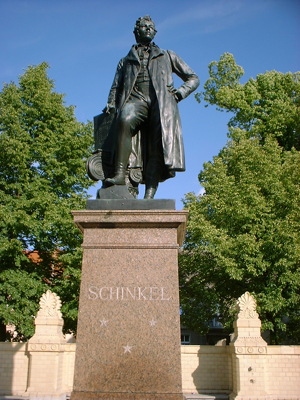 Schinkel statue in Neuruppin in Brandenburg, Germany. Sculpture by Max Wiese